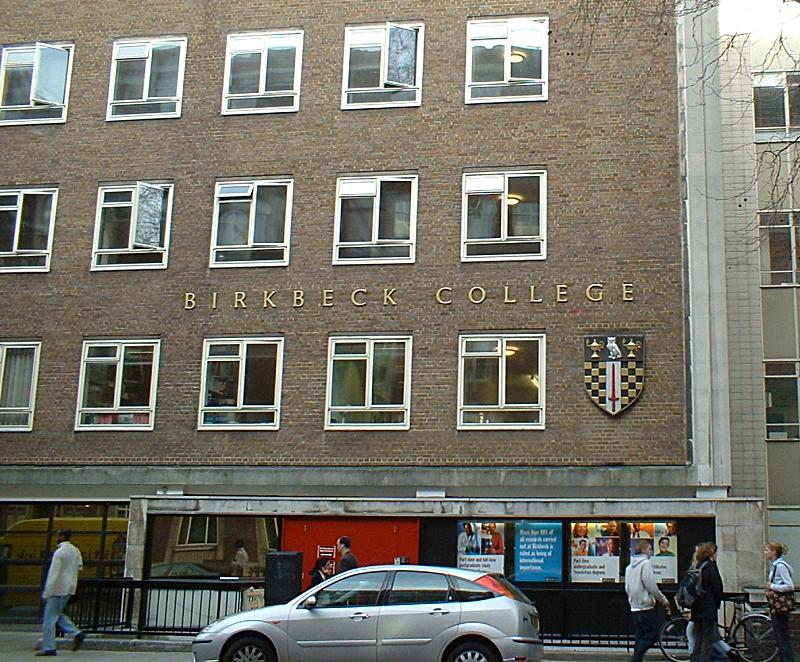 Birkbeck College, taken by C Ford March 04. Category:Birkbeck, University of London